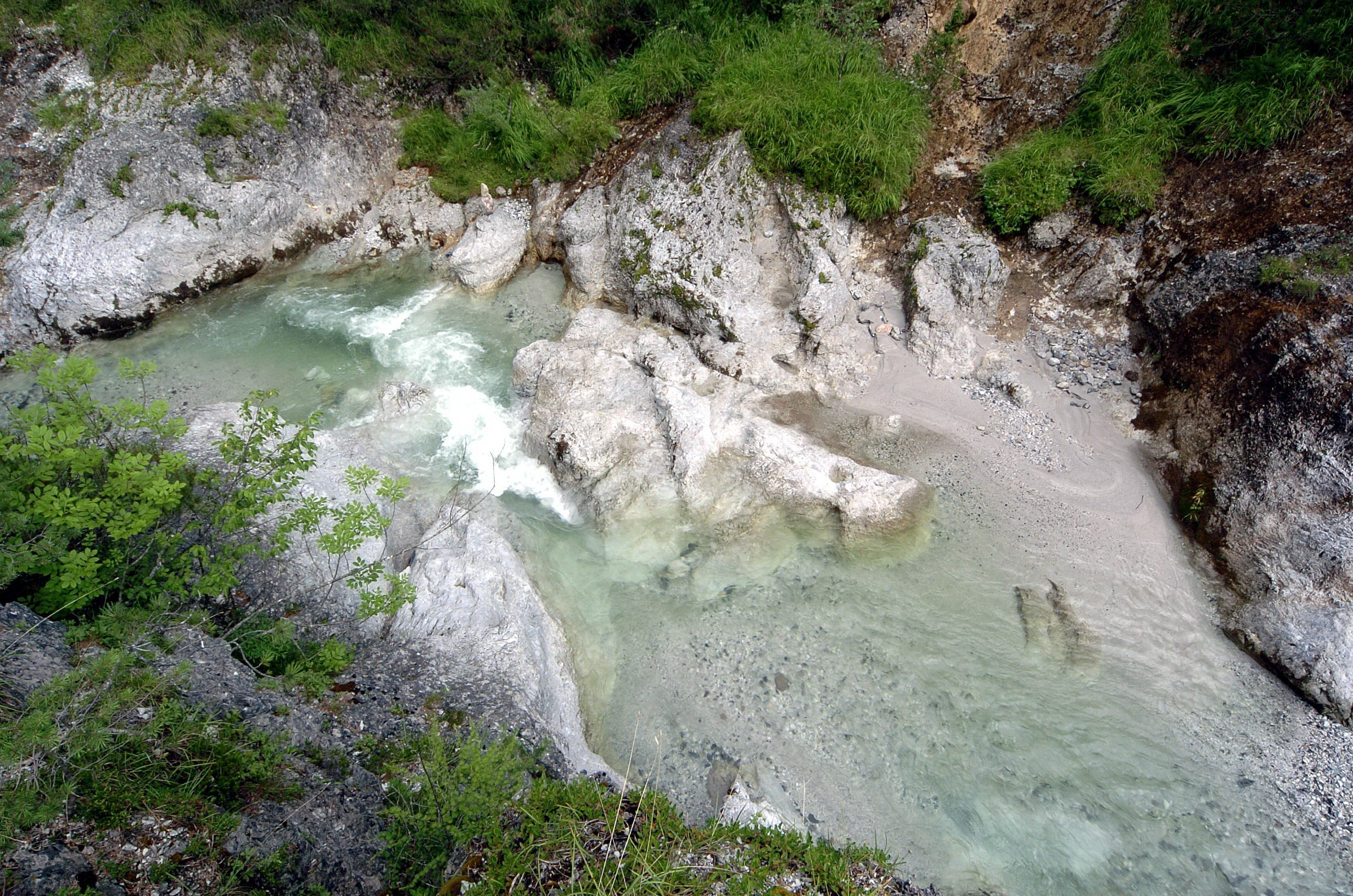 Troegern creek passing through the Troegern canyon in the community Eisenkappel-Vellach, district Völkermarkt, Carinthia, Austria, European Union.